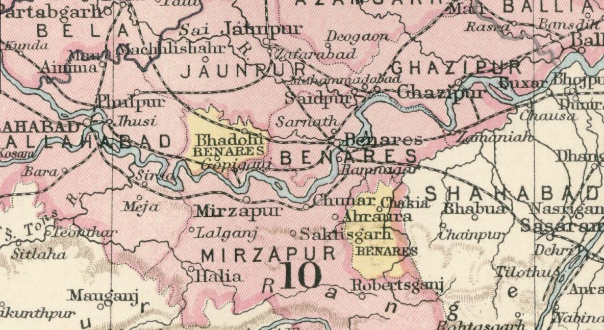 Benares State in the Imperial Gazetteer of India Atlas